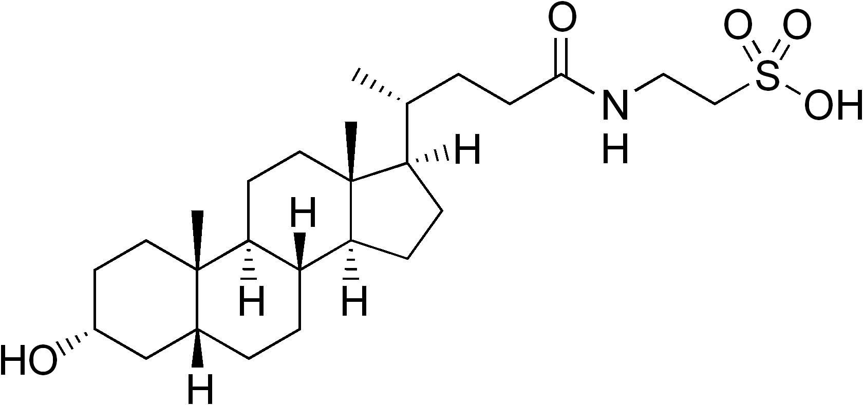 chemical structure of taurolithocholic acid